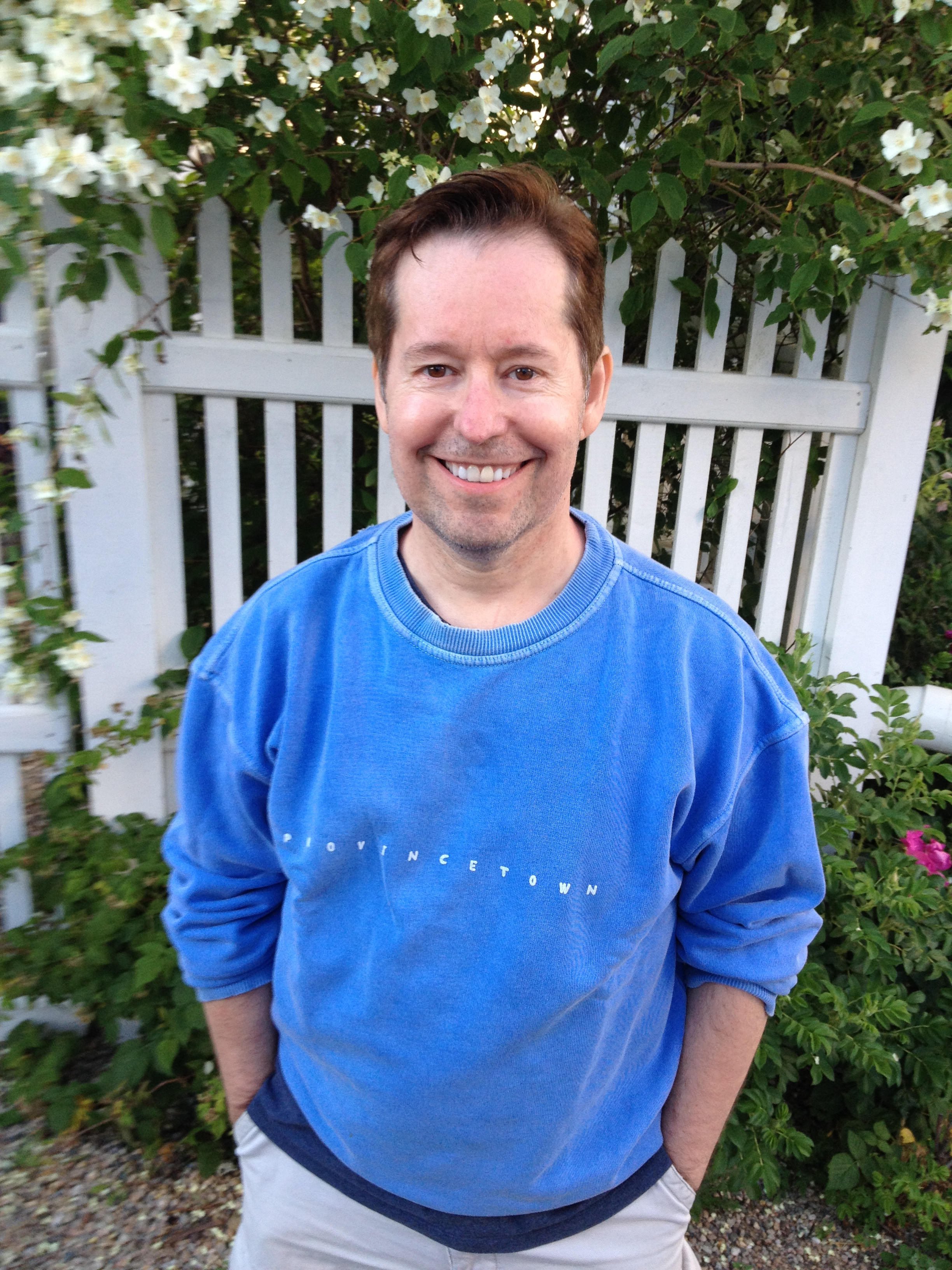 Provincetown 2014